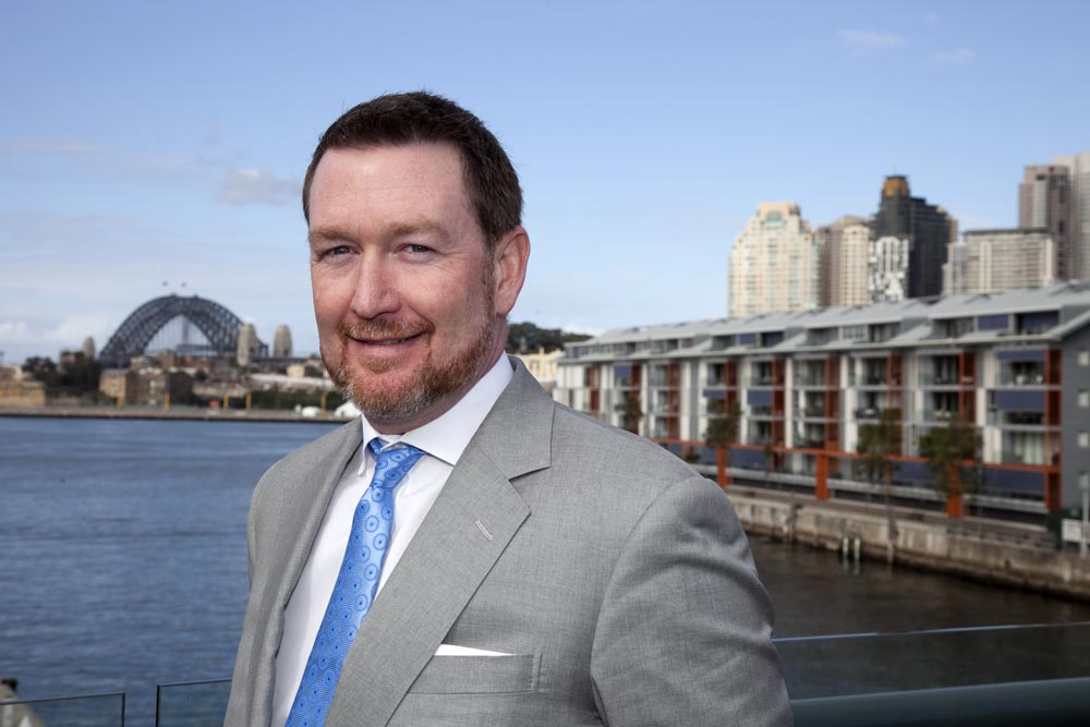 Richard Titus, CEO Associated Northcliffe Digital